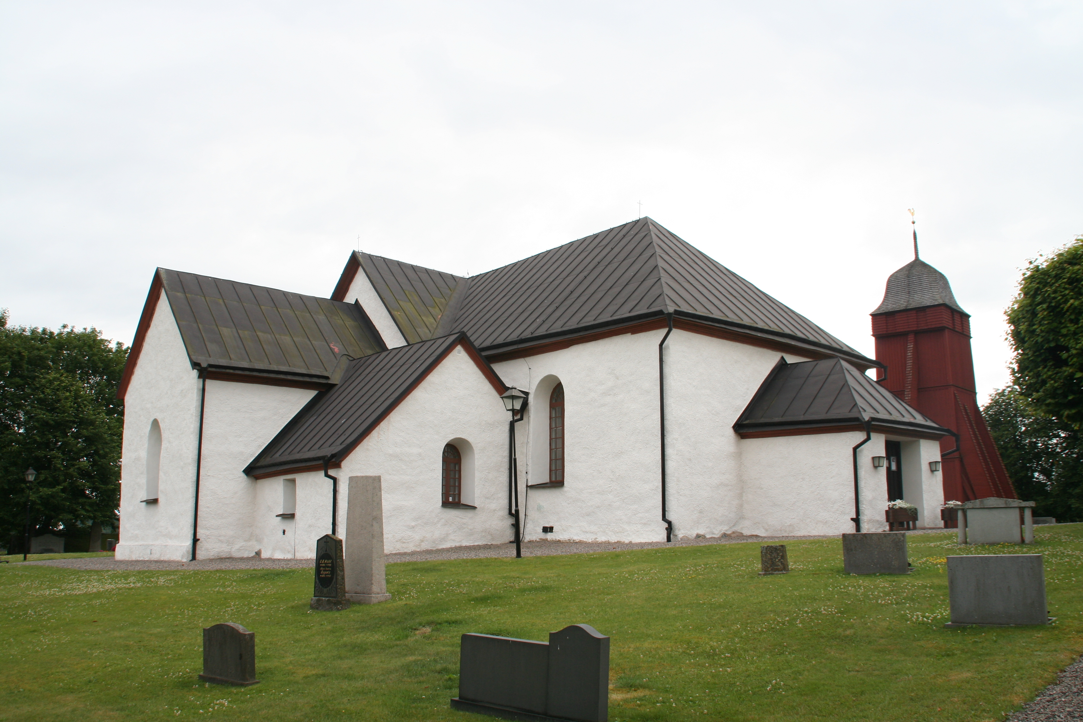 Nävelsjö Church